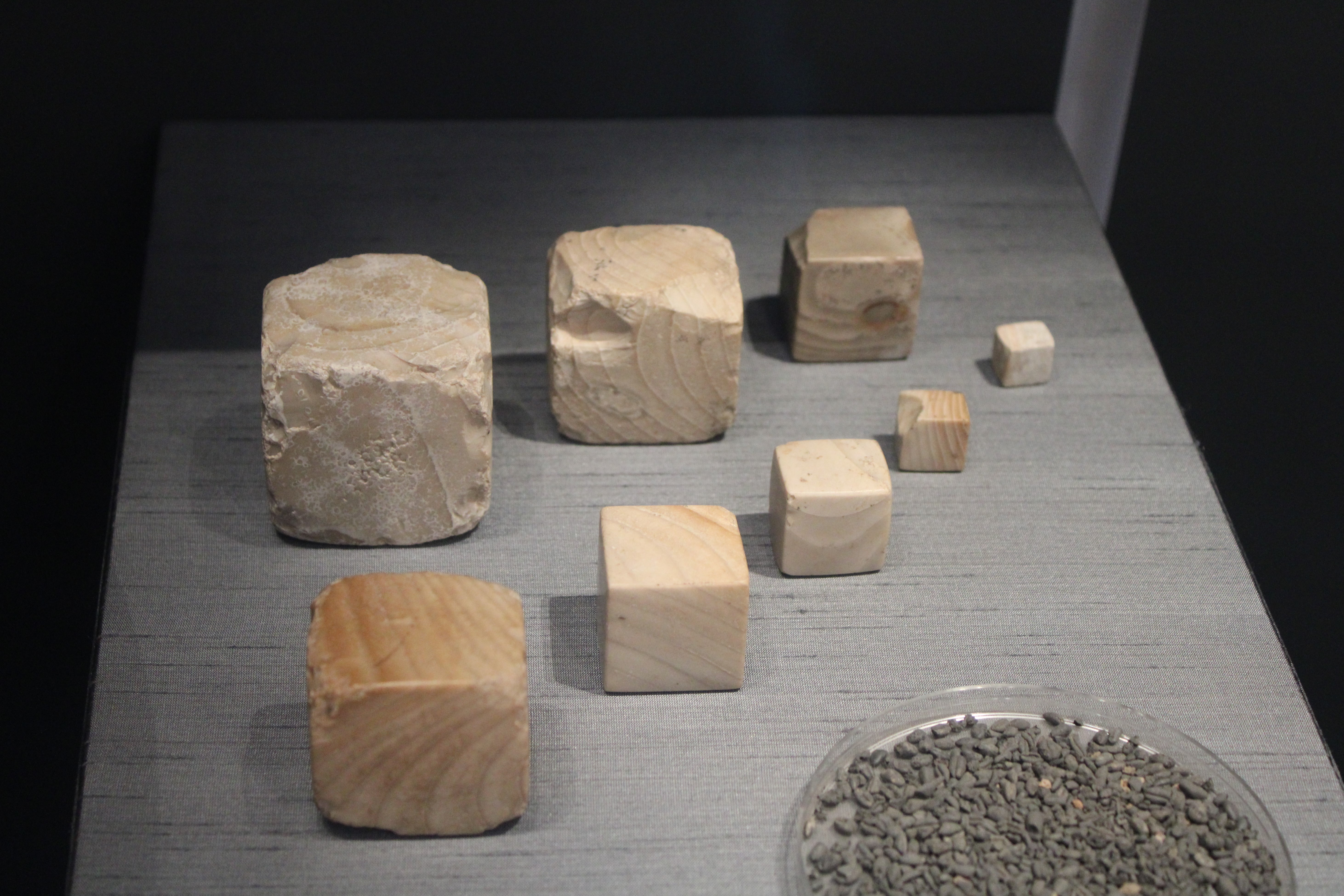 Cubical weights made of chert, standardised throughout the Indus cultural zone. From Mohenjo-daro, Mature Harappan Period (c. 2600-1900 BC). British Museum,1939,0619.228-231,233,236,239,241.